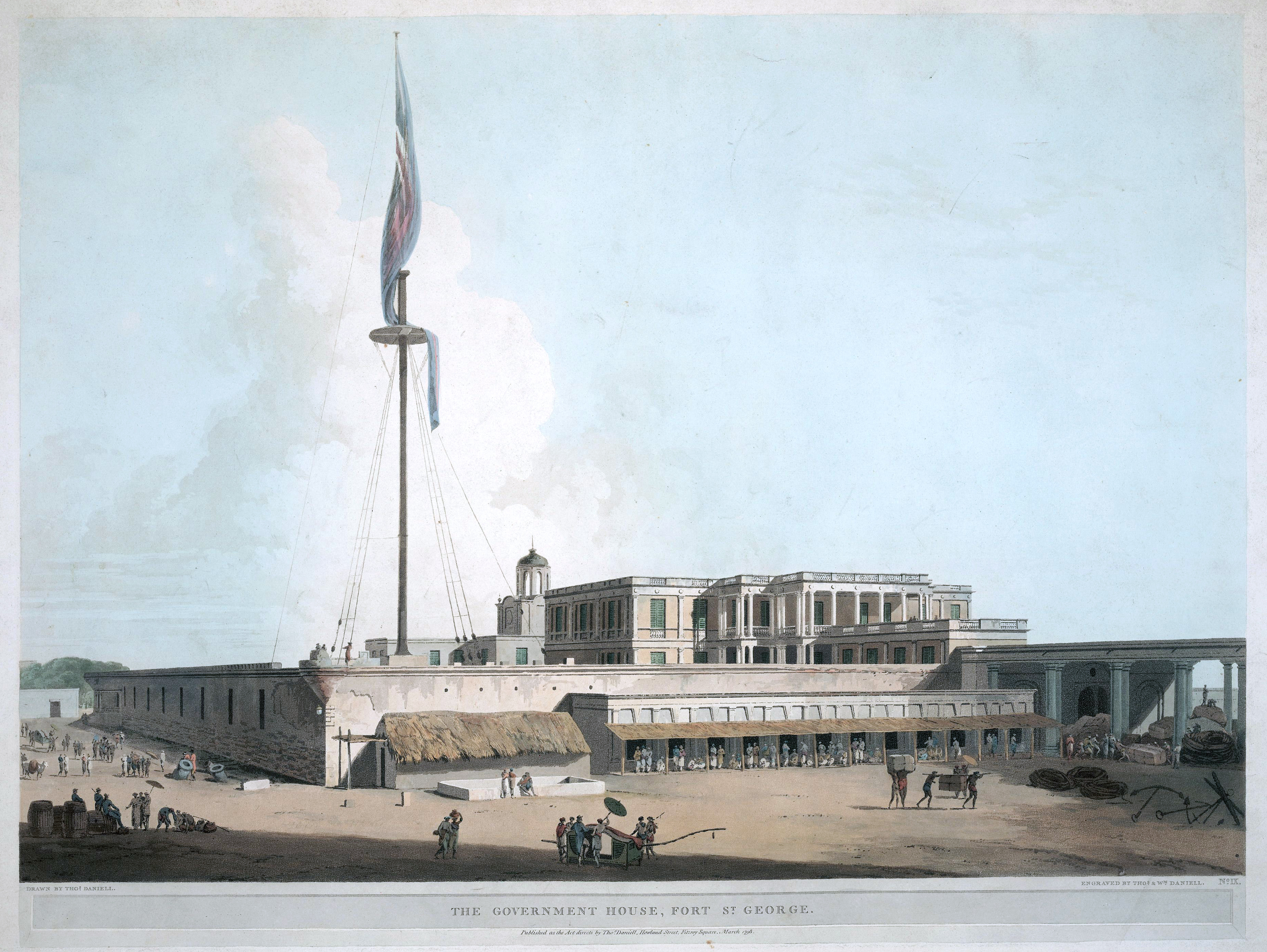 Plate nine from the second set of Thomas and William Daniell's 'Oriental Scenery'.